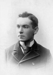 Edmund Burke Huey